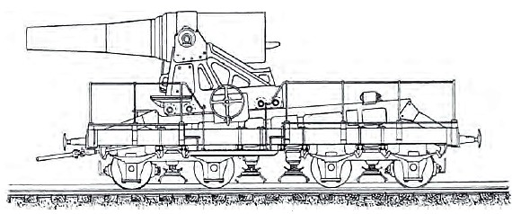 line drawing of a French 274 mm railway gun, probably Mle 1870/81